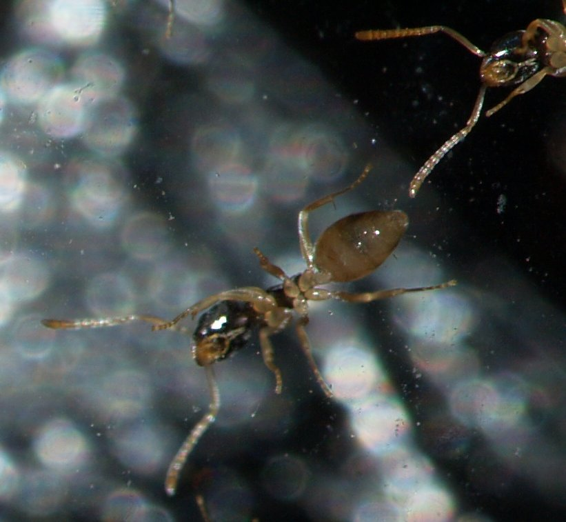 two Tapinoma melanocephalum' workers, from below through dirty glass, in the terraristic section of Cologne Zoo, Germany.